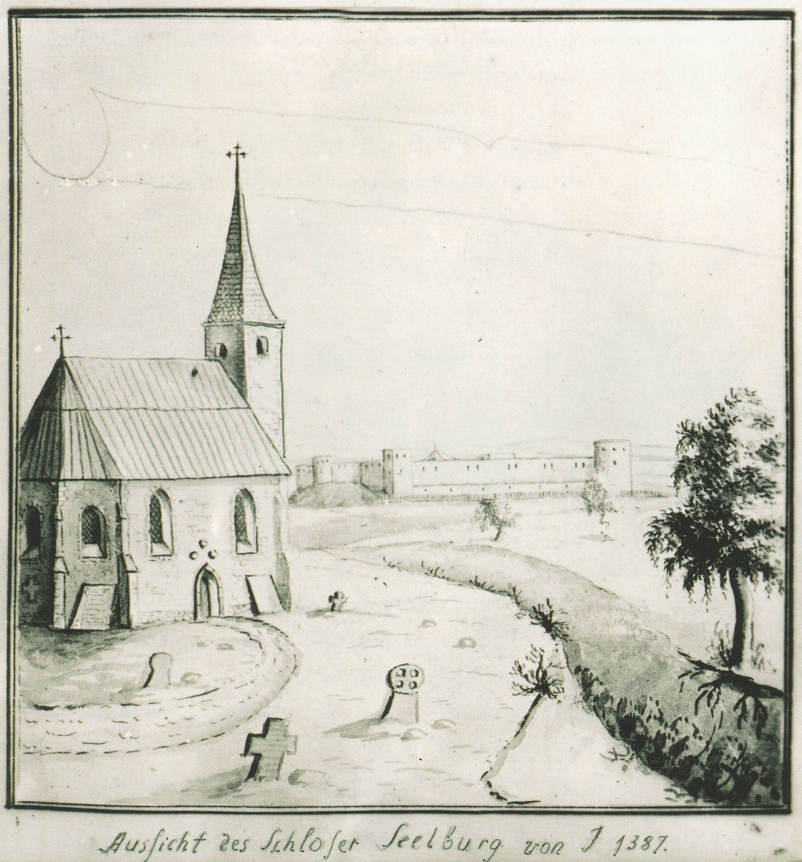 Ausficht des Schlofer Seelburg von I 1397 The Castle of Sēlpils in 1387. The drawing was made in 1802.